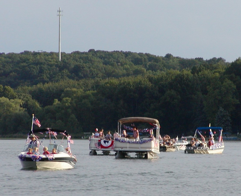 Little Cedar Lake (Wisconsin)